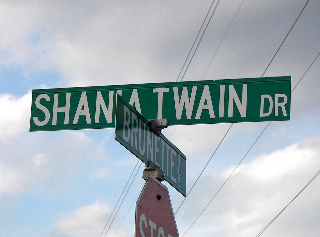 The drive named after country singer Shania Twain in Timmins, Ontario.